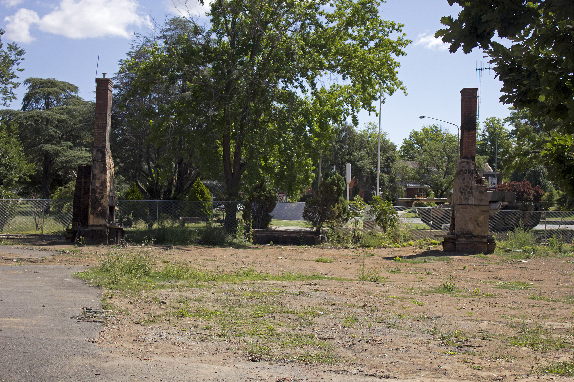 Canberra Services Club site. In April 2011, the historic building was destroyed by fire. The only remains of the building is the two fireplaces.